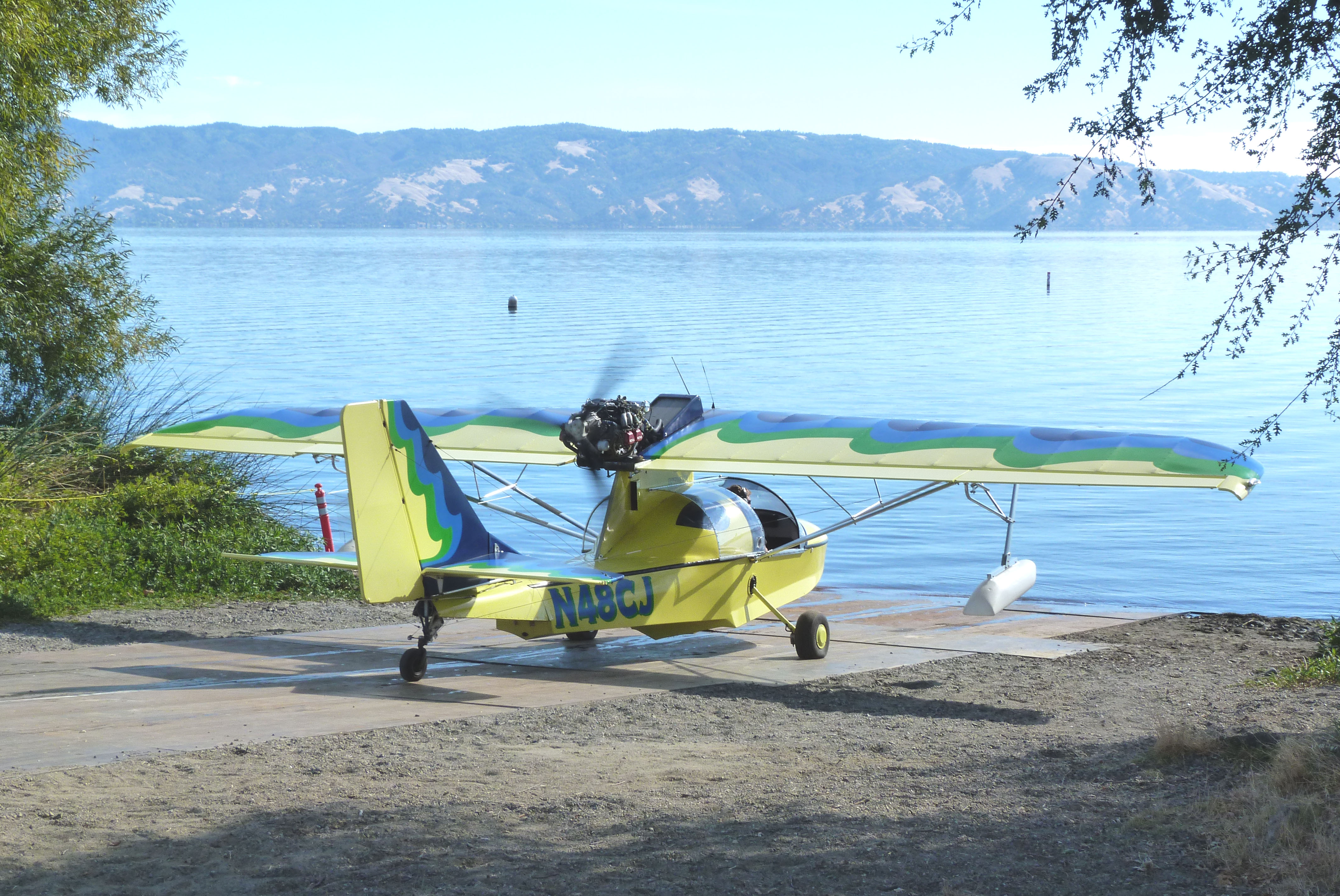 Clear Lake Sept 2013